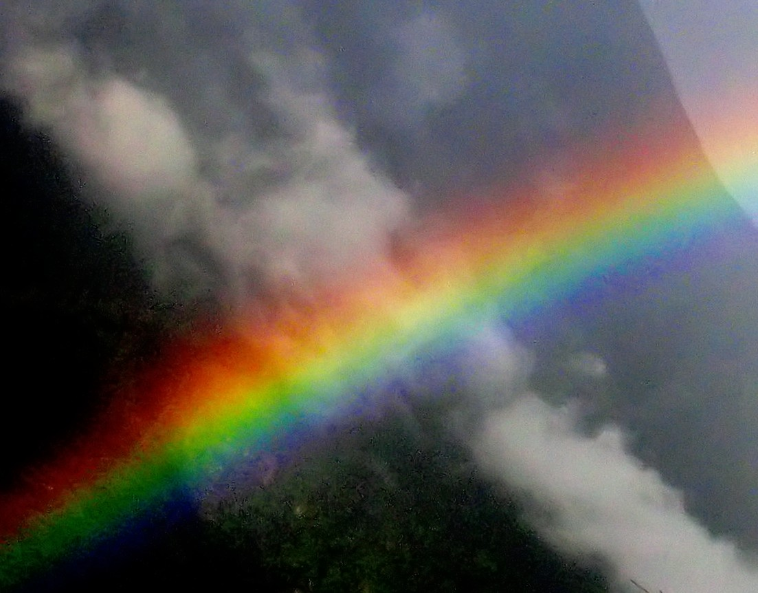 Close up of a rainbow high contrasted and filtered